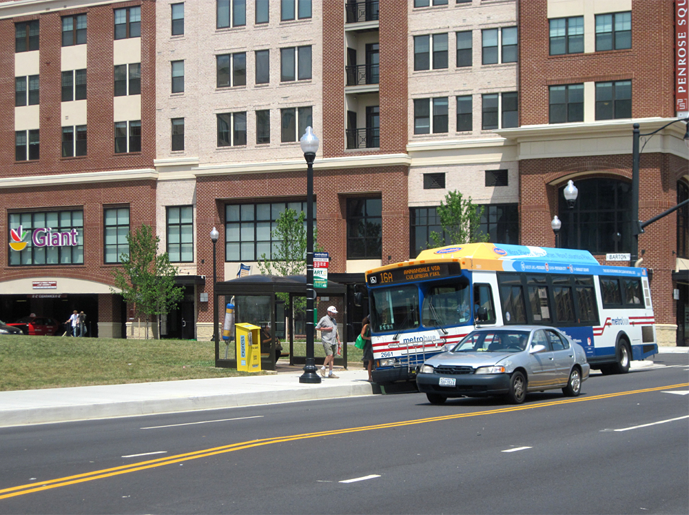 A bus picks up passengers at a new infill development on Columbia Pike in Arlington. It was built on the site of a former conventional grocery store-anchored neighborhood strip center with large parking lot in front. The development reflects a new form-based code for the corridor. There is still a grocery store but the parking is now structured and numerous apartments have been added to the retail mix. the corridor is well served by bus transit and there are plans to add streetcar service This work is licensed under a Creative Commons Attribution 3.0 United States License.